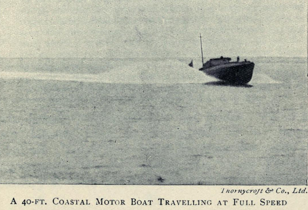 Coastal Motor Boat, 40 feet type, at full speed, vie from the front